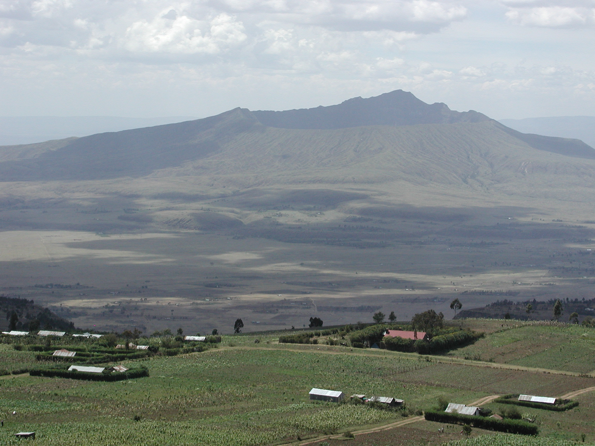 Mount Longonot, Kenya